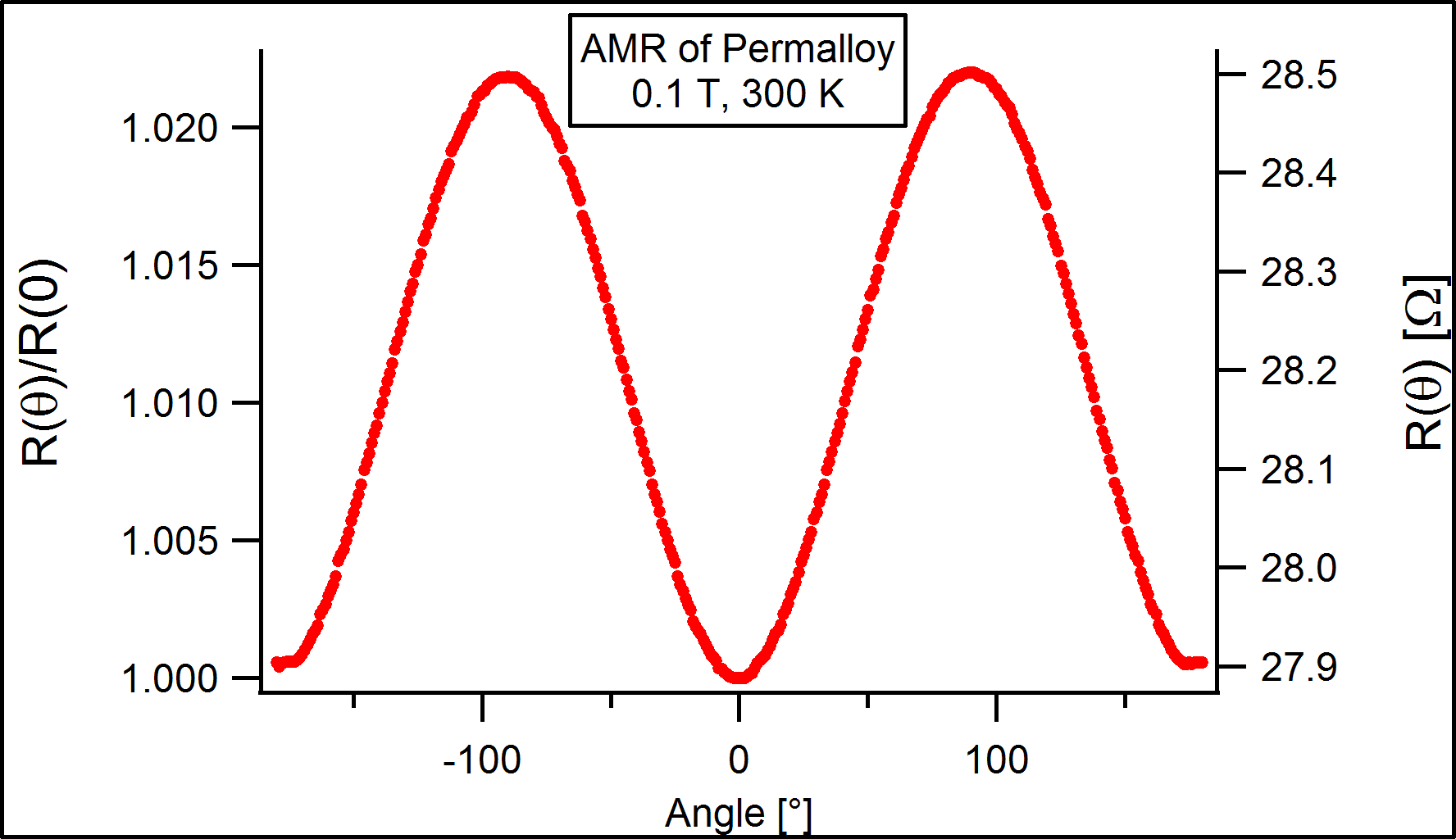 This plot shows the resistance as a function of the angle of an applied external field for a thin Permalloy film at room temperate.